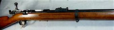 Picture taken for use on Wikipedia, no rights reserved